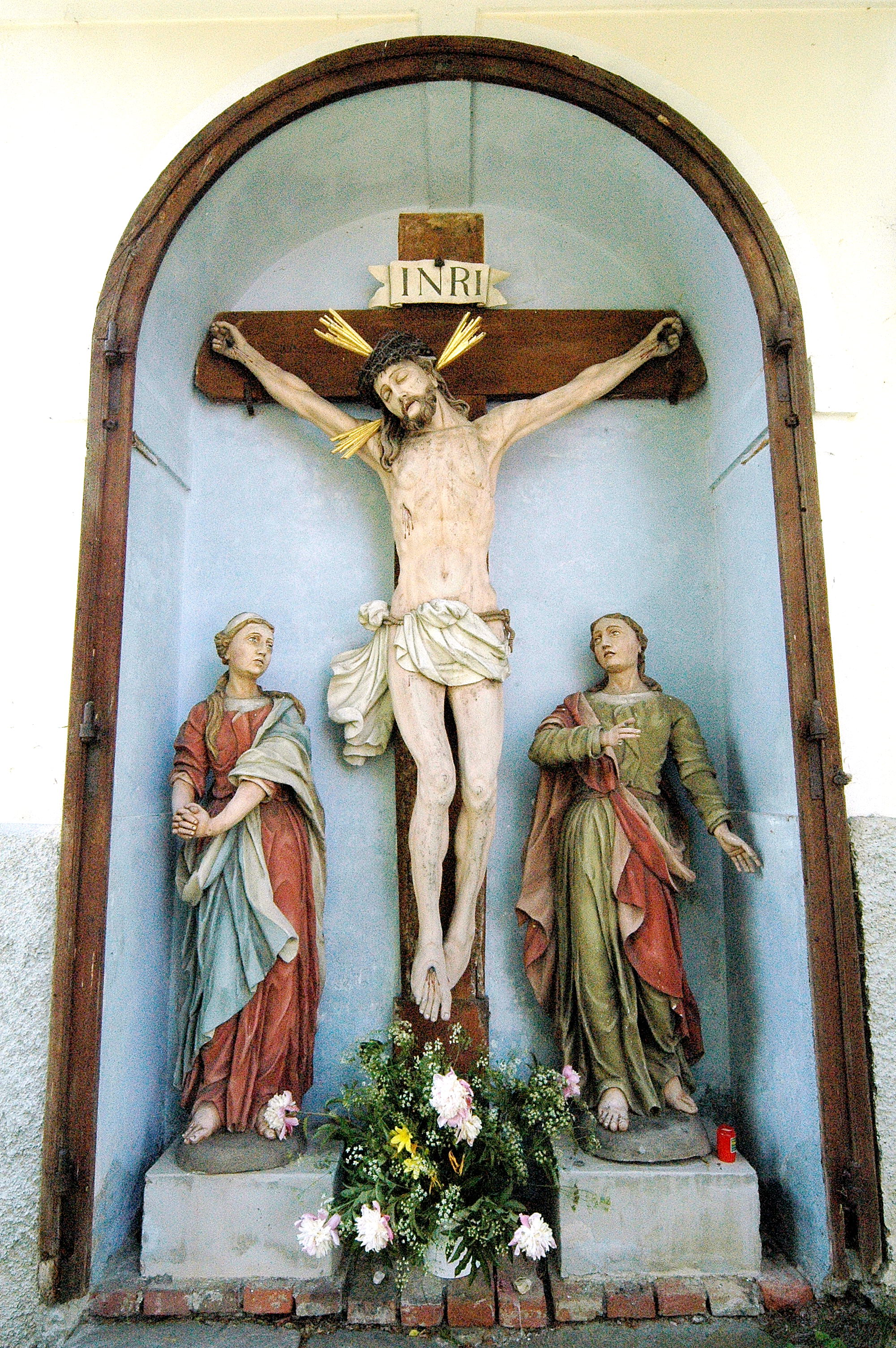 Wooden carved group: crucifix with Mary and John at the pilgrimage church at Freudenberg, in the municipality Moosburg, district Klagenfurt Land, Carinthia, Austria